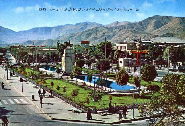 Bagh melli (mean:Public Garden) is central square in Arak.